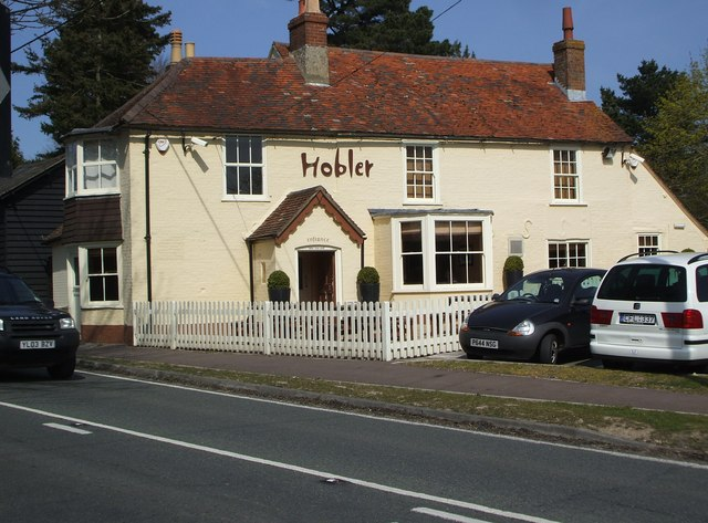 The Hobler Inn, Battramsley This Inn is on the main A337 at Battramsley.